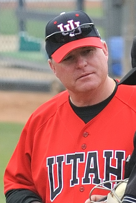 University of Utah head baseball coach Bill Kinneberg before a game at Loyola Marymount University in Los Angeles on February 22, 2009.